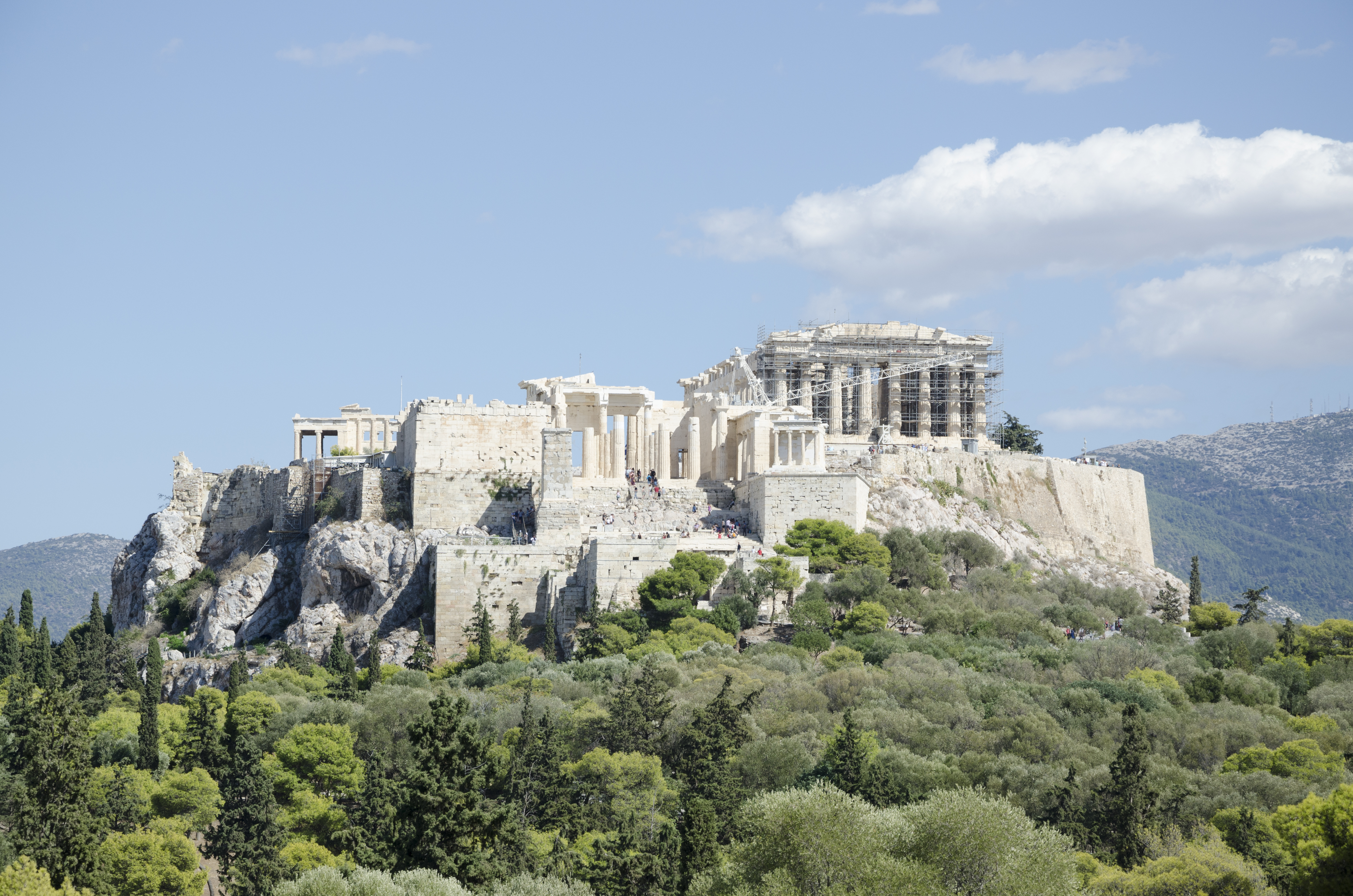 The Acropolis of Athens, seen from the Pnyx.